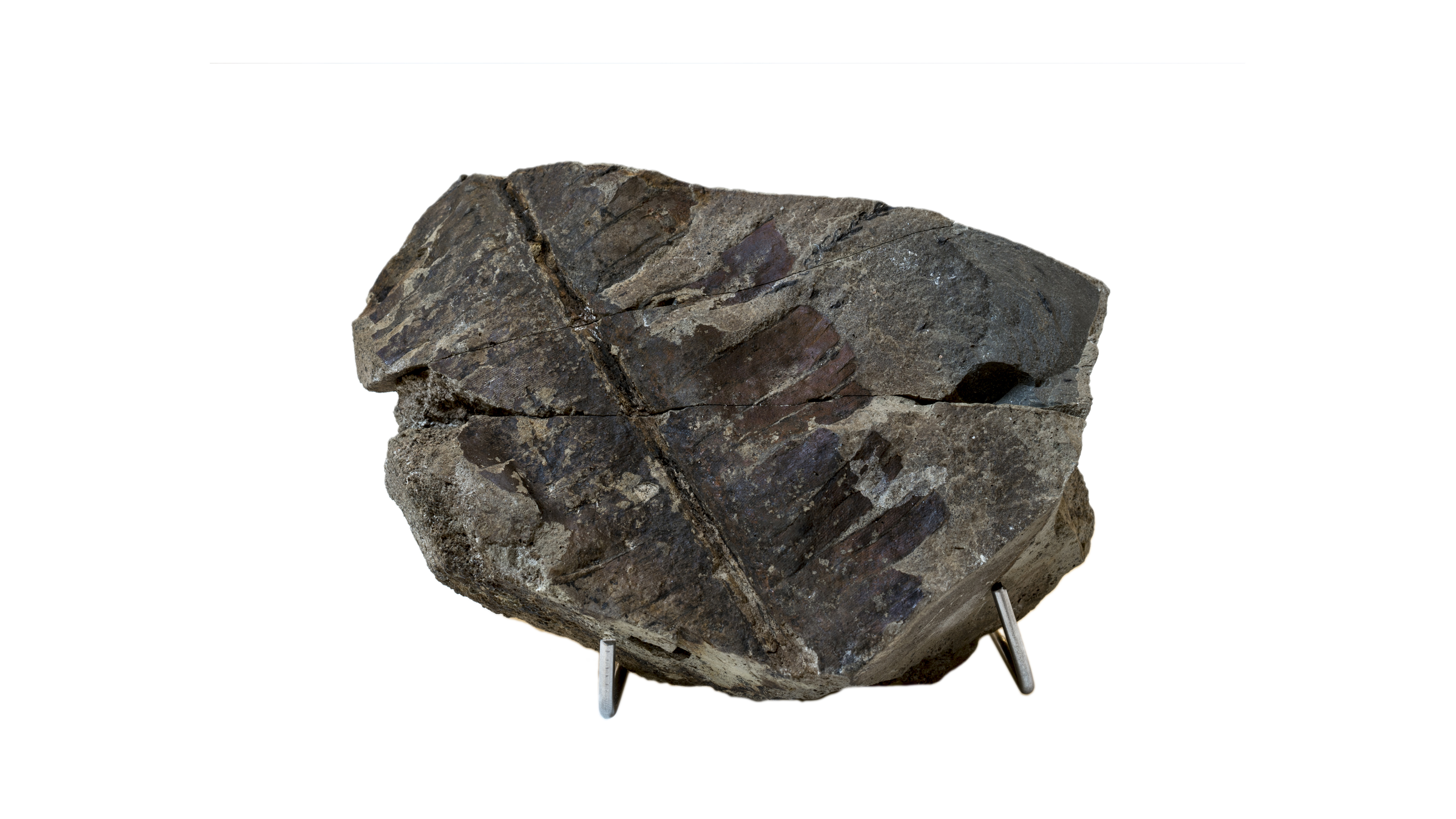 Fossil.